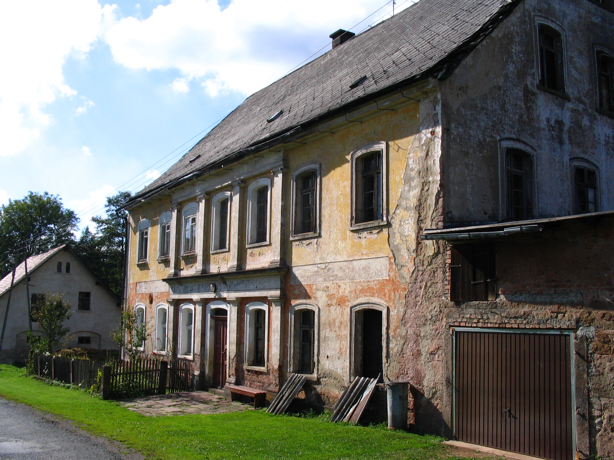 Post-german building, Okrzeszyn, Poland, 2005 yr. Camera: Canon PowerShot A75